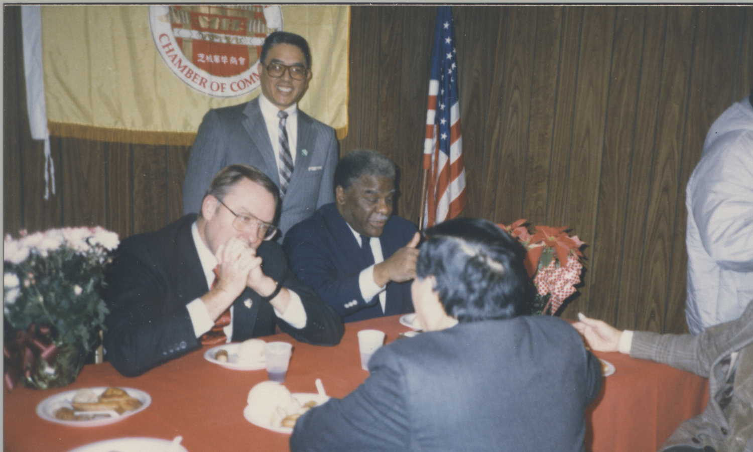 Source = personal photo of the Tom family, used by permission